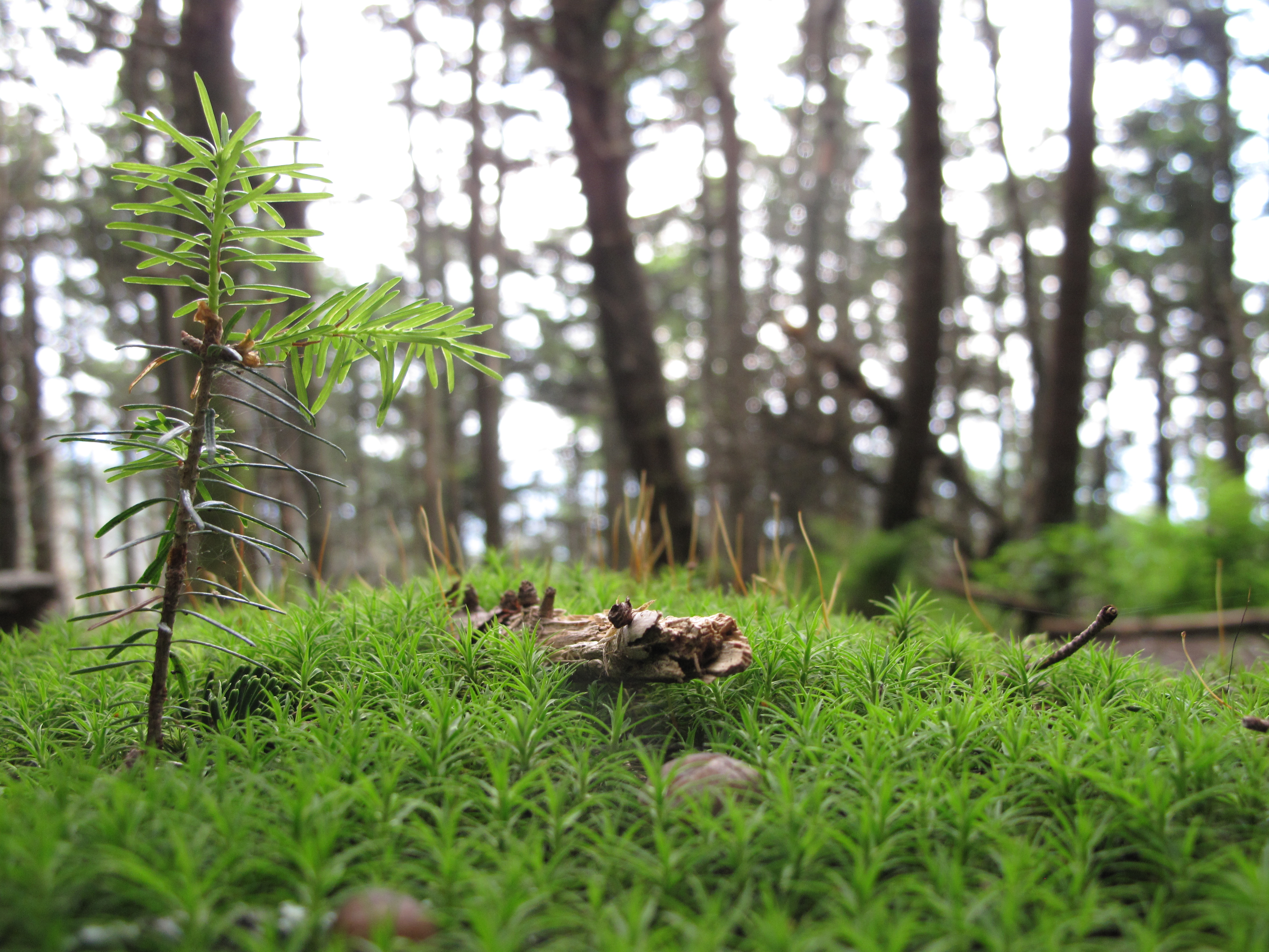 Abies fraseri seedling, near Asheville, North Carolina. Credit: G. Peeples/USFWS